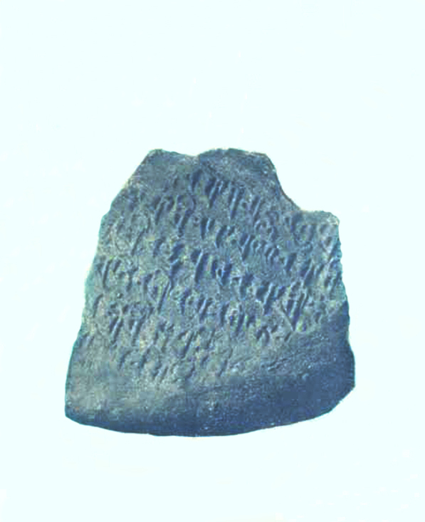 Seal of Bhaskar Varman Found at Nalanda dated 643 A.D